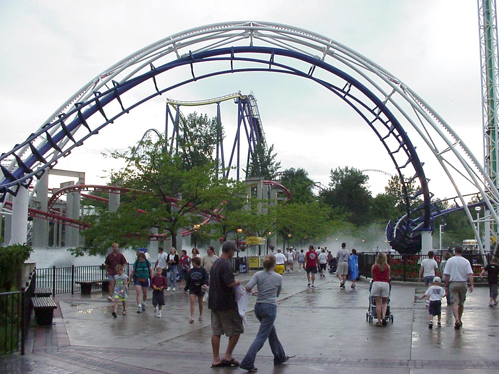 Coasters inside the Cedar Point amusement park in Sandusky, Ohio Top to bottom: The Corkscrew (overhead), The Mantis (yellow track), The Millennium Force (in distant background), and The Iron Dragon (red track). The Power Tower runs along the right side of the image.